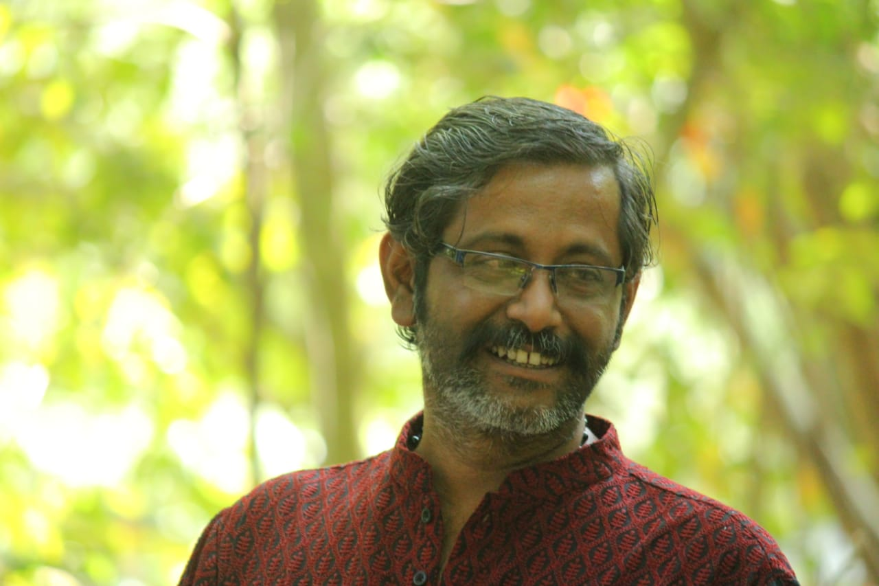 Rajesh Sharma is an Indian actor, who appears in Malayalam movies. He acted in several dramas and debuted in Malayalam movie industry in 2005